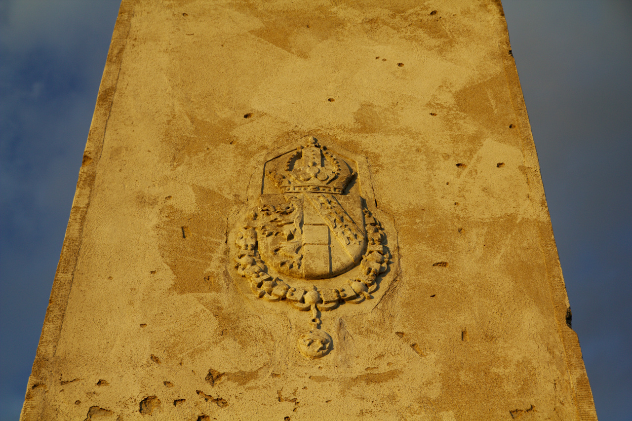 Kaim Hill Memorial